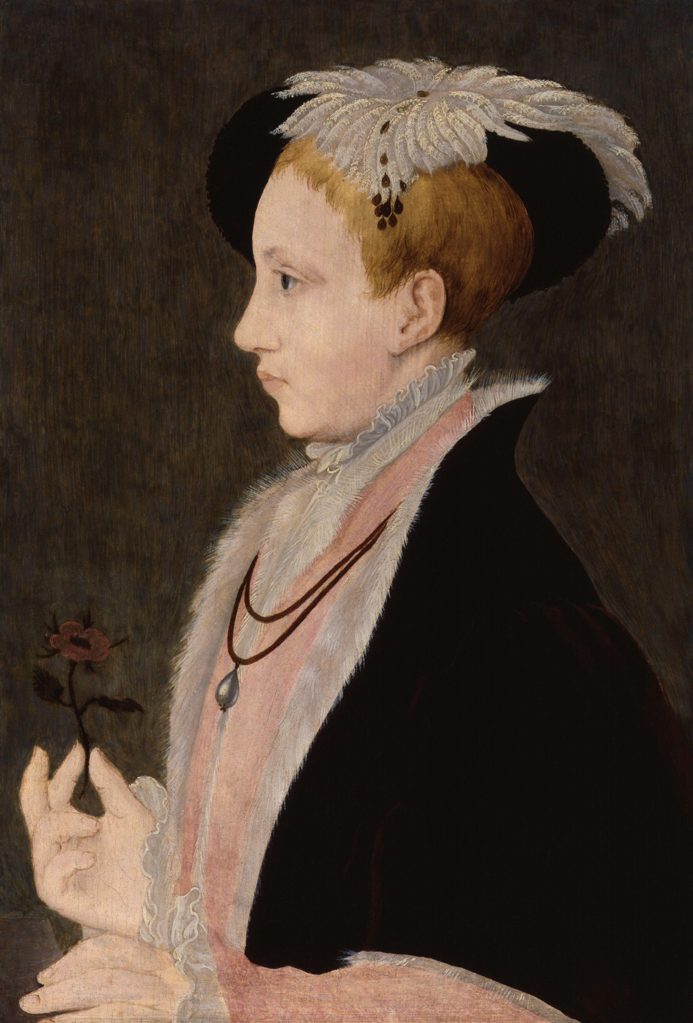 Profile Portrait of King Edward VI (1537-1553)